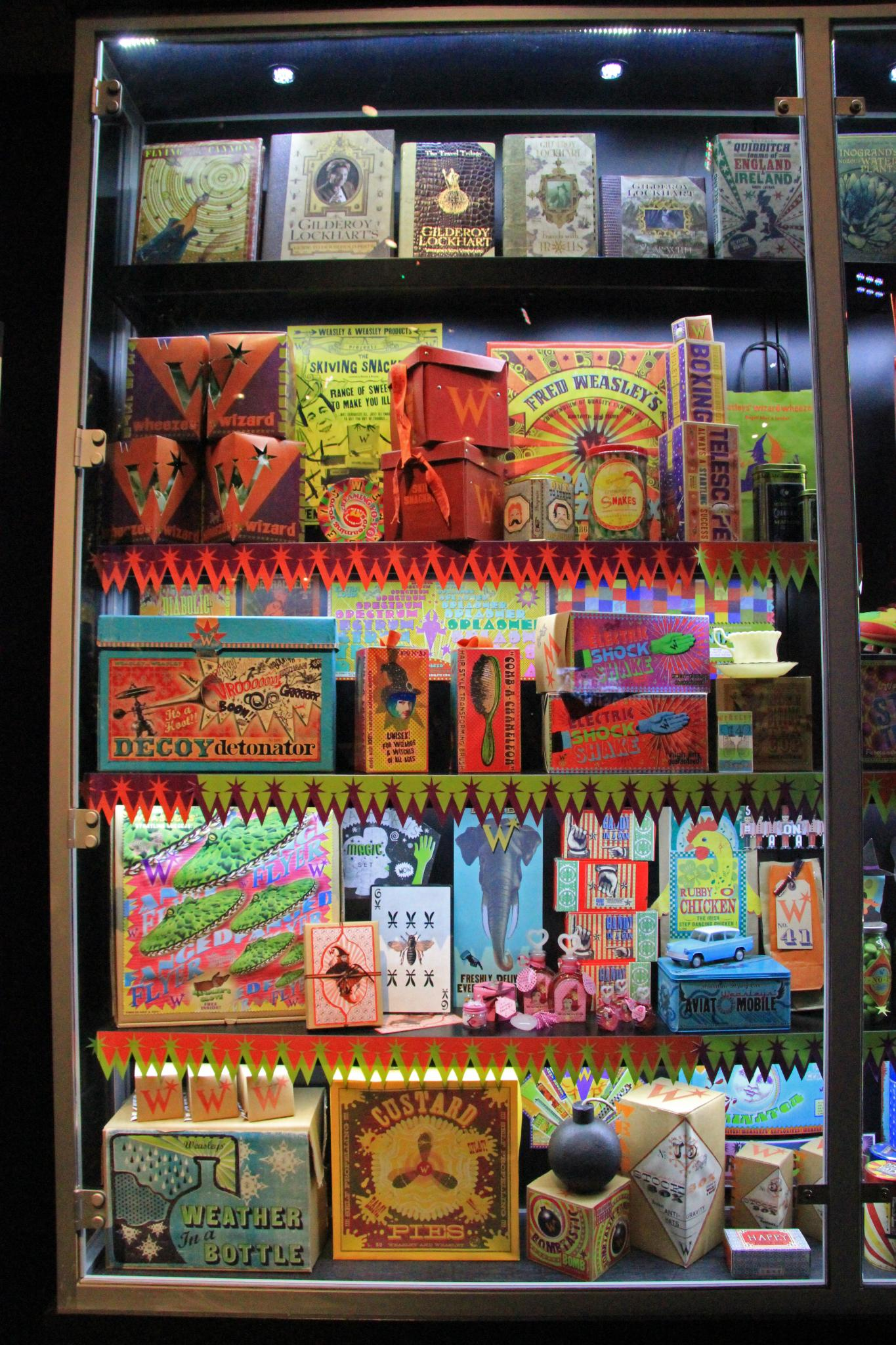 Warner Bros. Studio Tour London: The Making of Harry Potter.